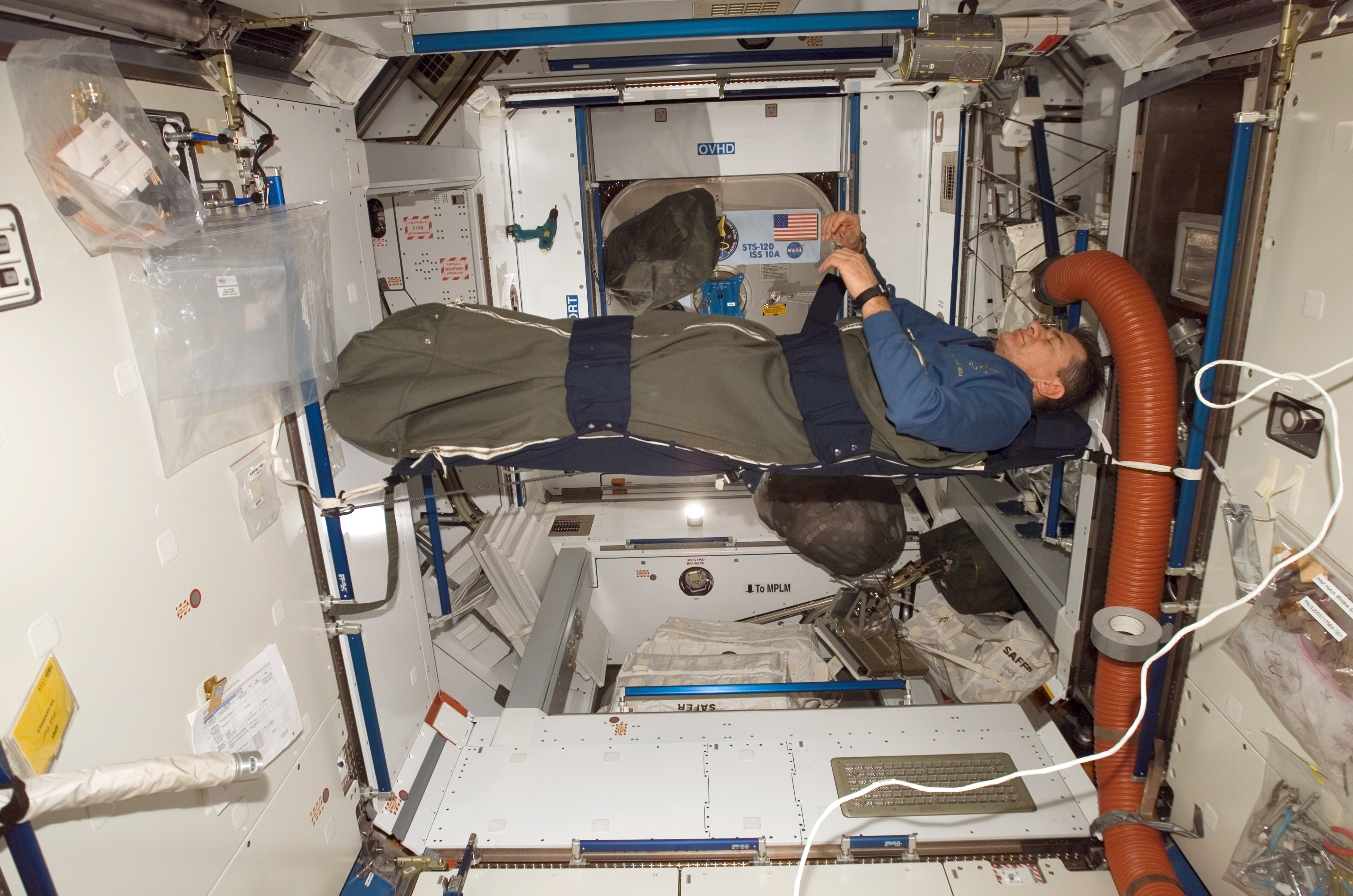 European Space Agency (ESA) astronaut Paolo Nespoli, STS-120 mission specialist, rests in his sleeping bag in the Harmony node of the International Space Station while Space Shuttle Discovery is docked with the station.